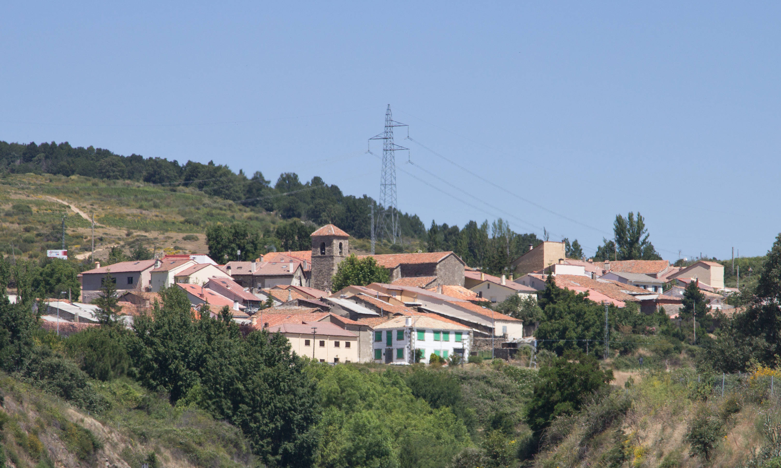 Robregordo, Community of Madrid, Spain.